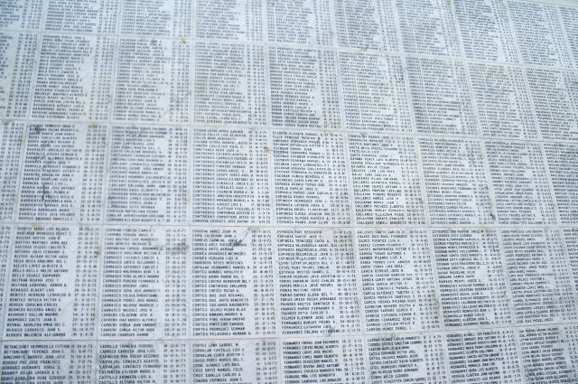 Monument in the cemetery of Santiago, Chile, contained a partial list of leftist political activists killed by the military dictatorship of Chile, between 1973 and 1990